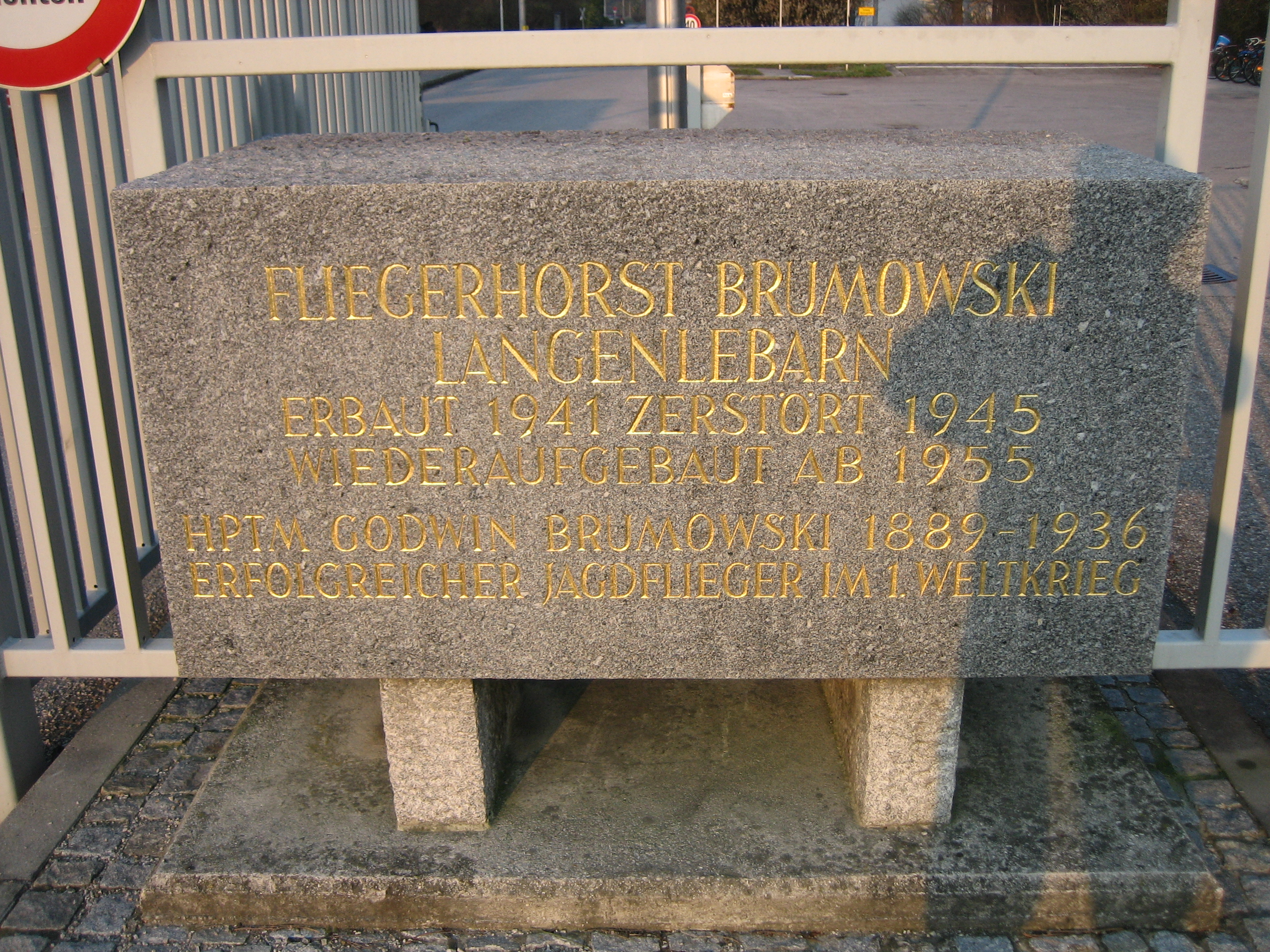 The plaque at the main gate of Fliegerhorst Brumowski, Langenlebarn, Austria